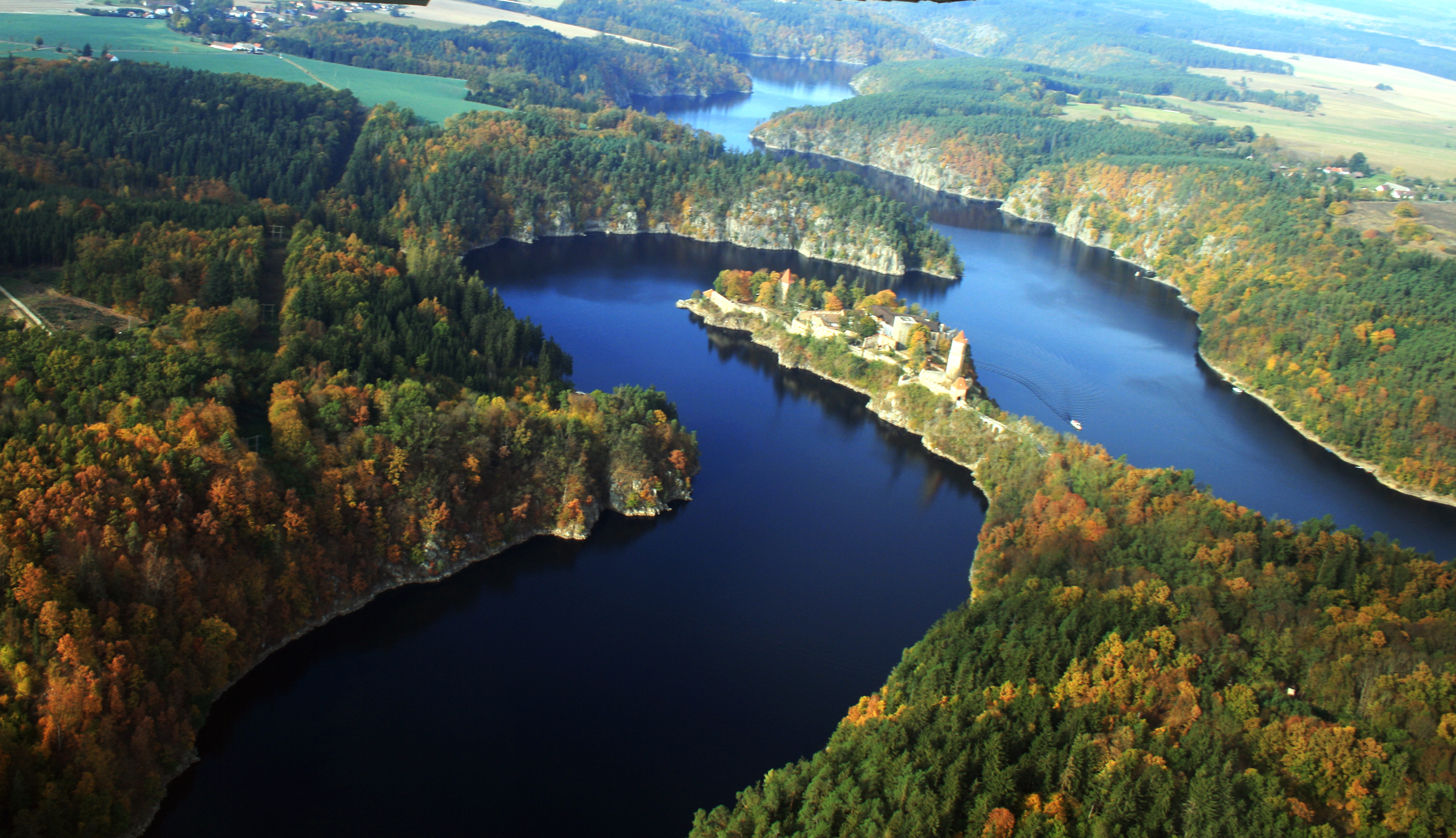 Air photo of Zvíkov Castle on Orlík dam on Vltava river, the Czech Republic